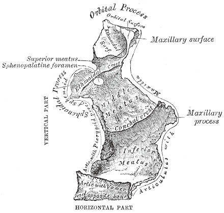 Left palate bone. Internal view, enlarged.